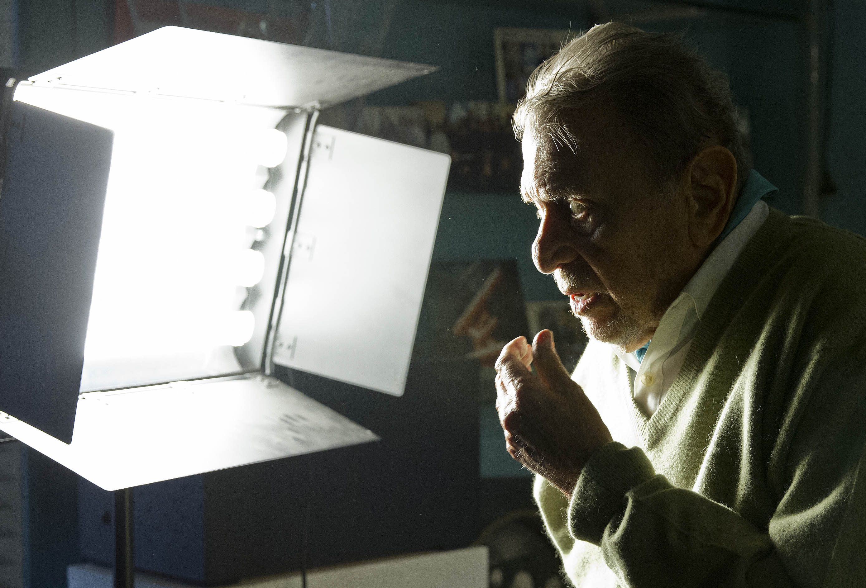 Argentine artist Gyula Kosice on an interview for "Voces". Picture by Silvina Frydlewsky / Ministerio de Cultura de la Nación.